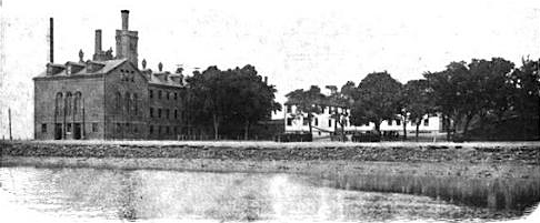 House of Reformation, Rainsford Island, Boston Harbor, Massachusetts